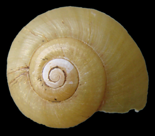 Photo of apertural view of the shell of Amphicyclotulus amethystinus. Width of the shell is 14.1 mm.